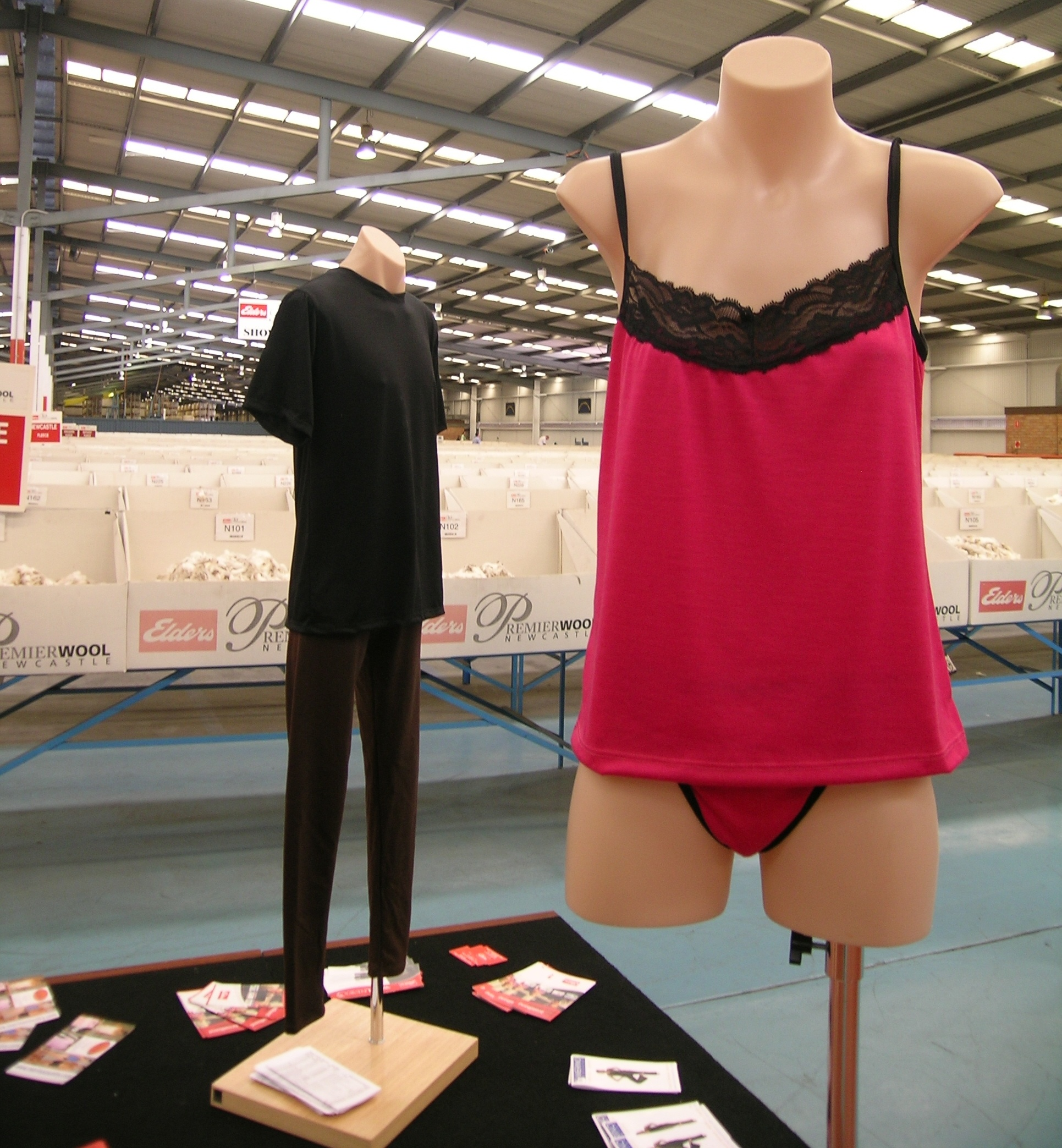 Woollen garments in the wool samples area of a wool store, Newcastle, NSW